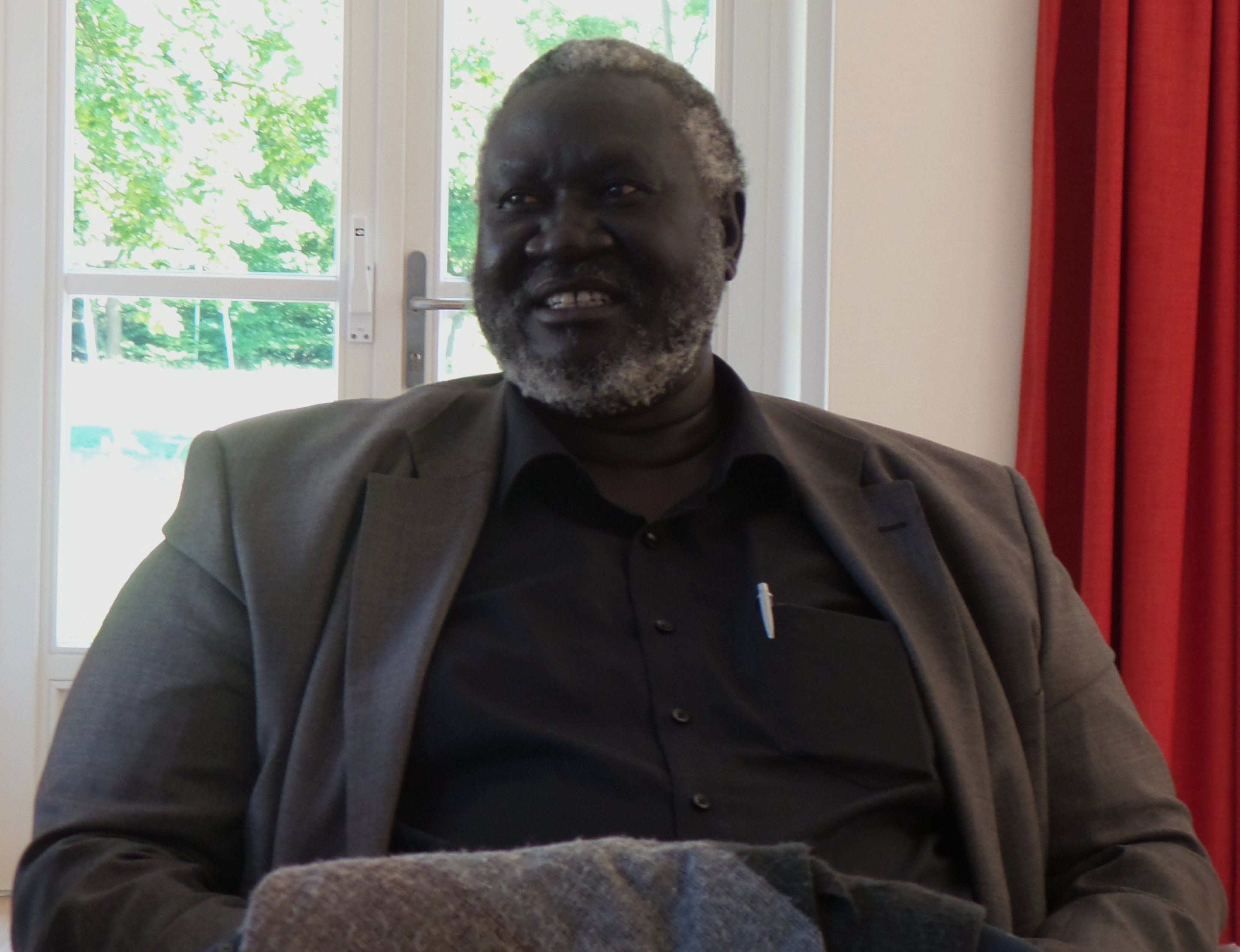 Malik Agar, leading member of the Sudan People's Liberation Movement/Army - North (SPLM/A-N) and former governor of Blue Nile State, at the annual Sudan and South Sudan conference in Hermannsburg, Germany.